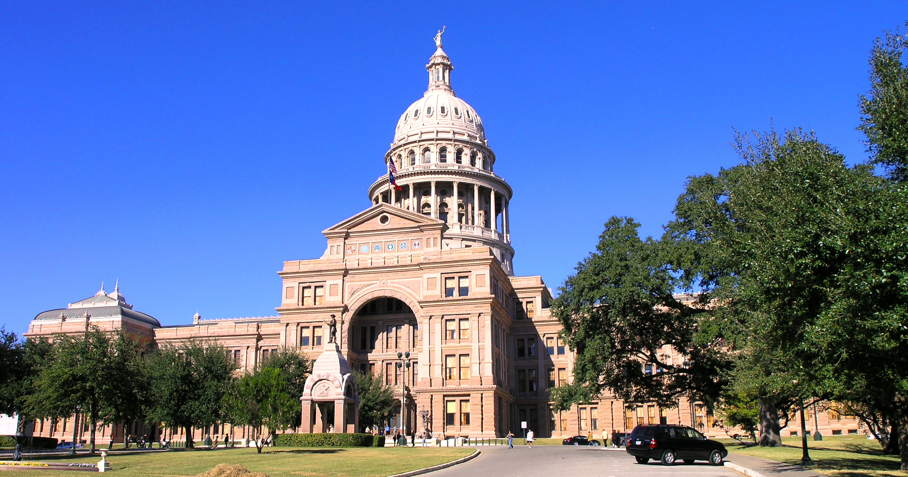 Image of Austin, Texas